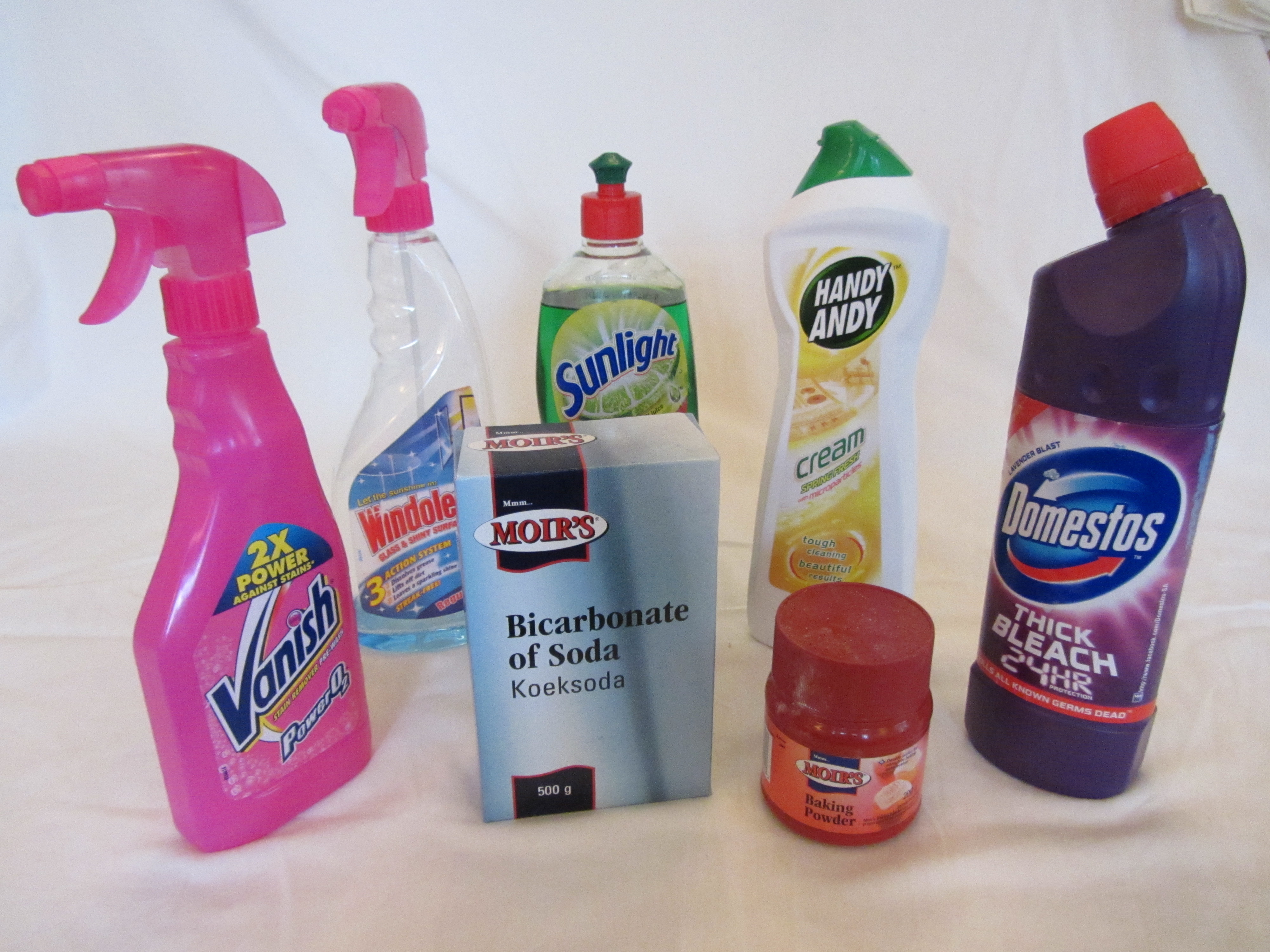 Various household products (bases)